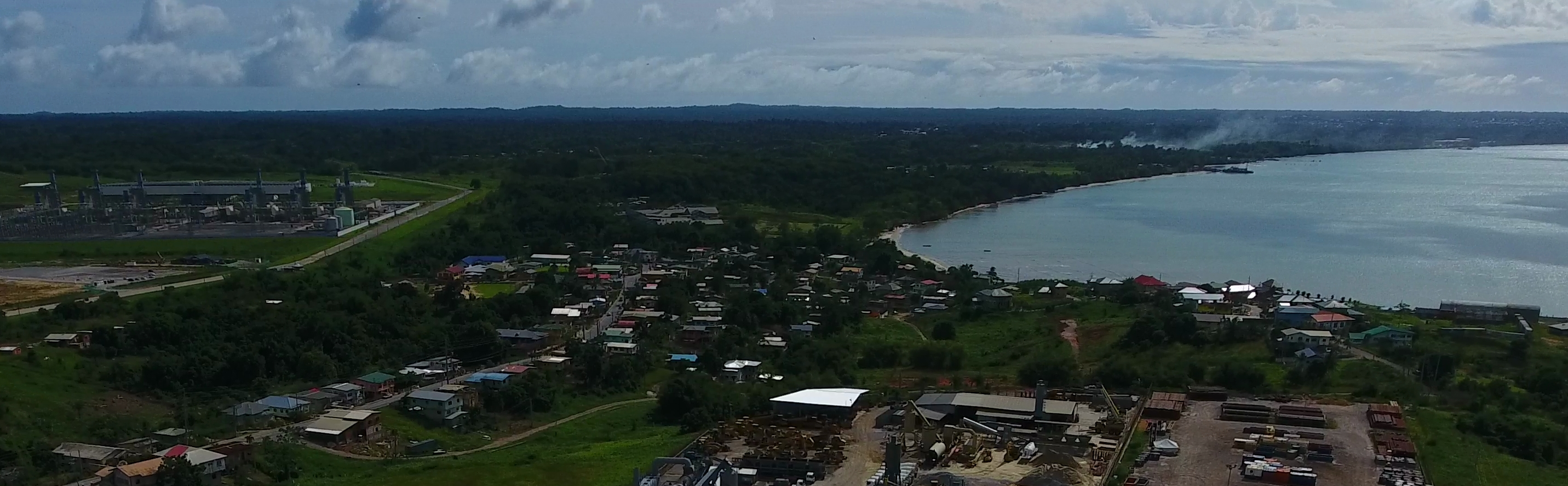 Vessigny, Siparia, Trinidad and Tobago. Water body: Guapo Bay. Photo taken as part of the Southern Trinidad Aerial Photo Project, a small project sponsored by WMDE. Drone used: DJI Phantom 4. Snapshot taken from video footage via VLC, then cropped with IrfanView.